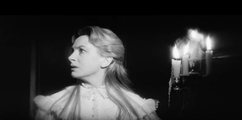 Deborah Kerr in screenshot from The Innocents trailer